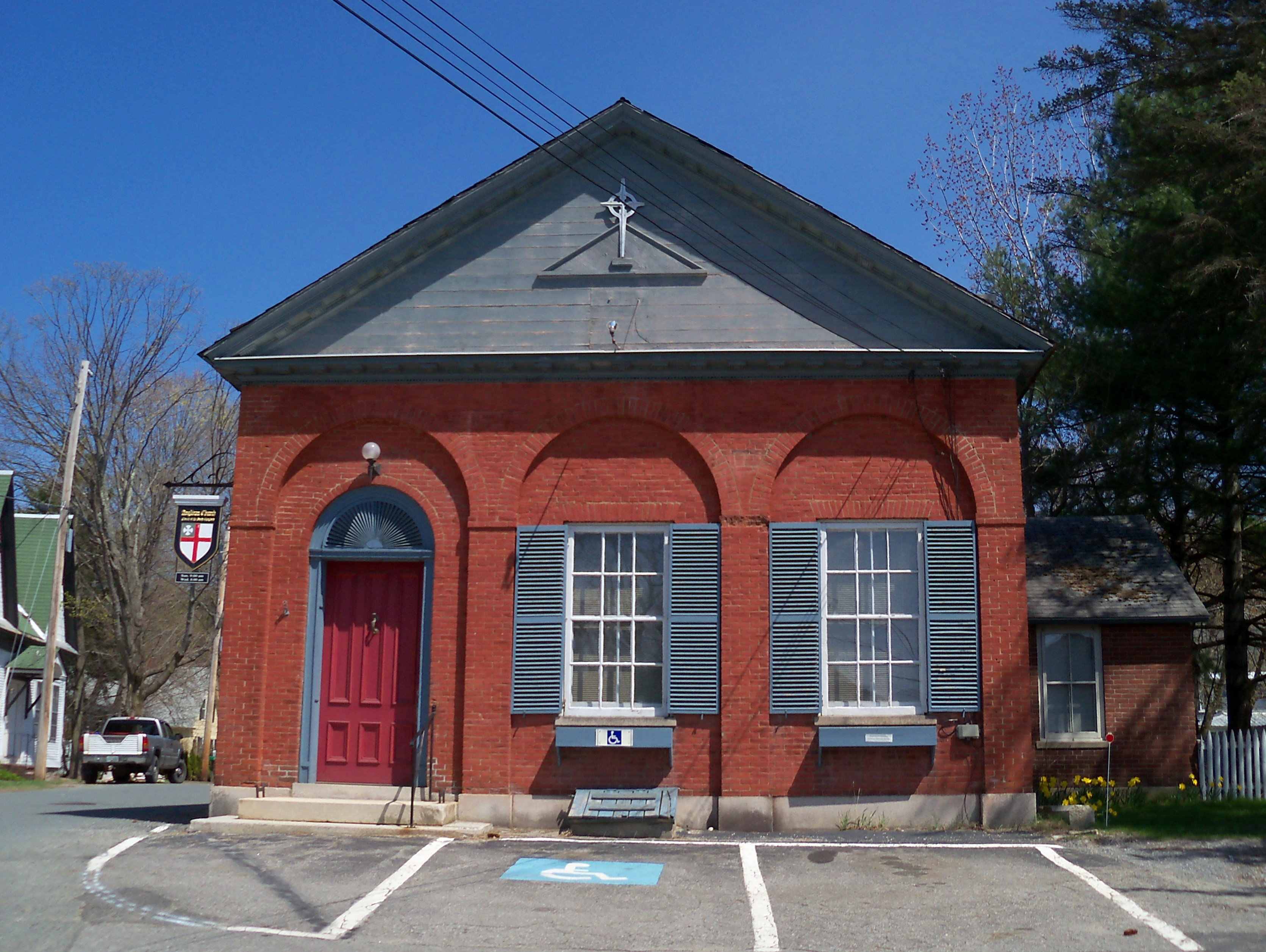 Anglican Church of the Good Shepherd in Charlestown, New Hampshire, USA.